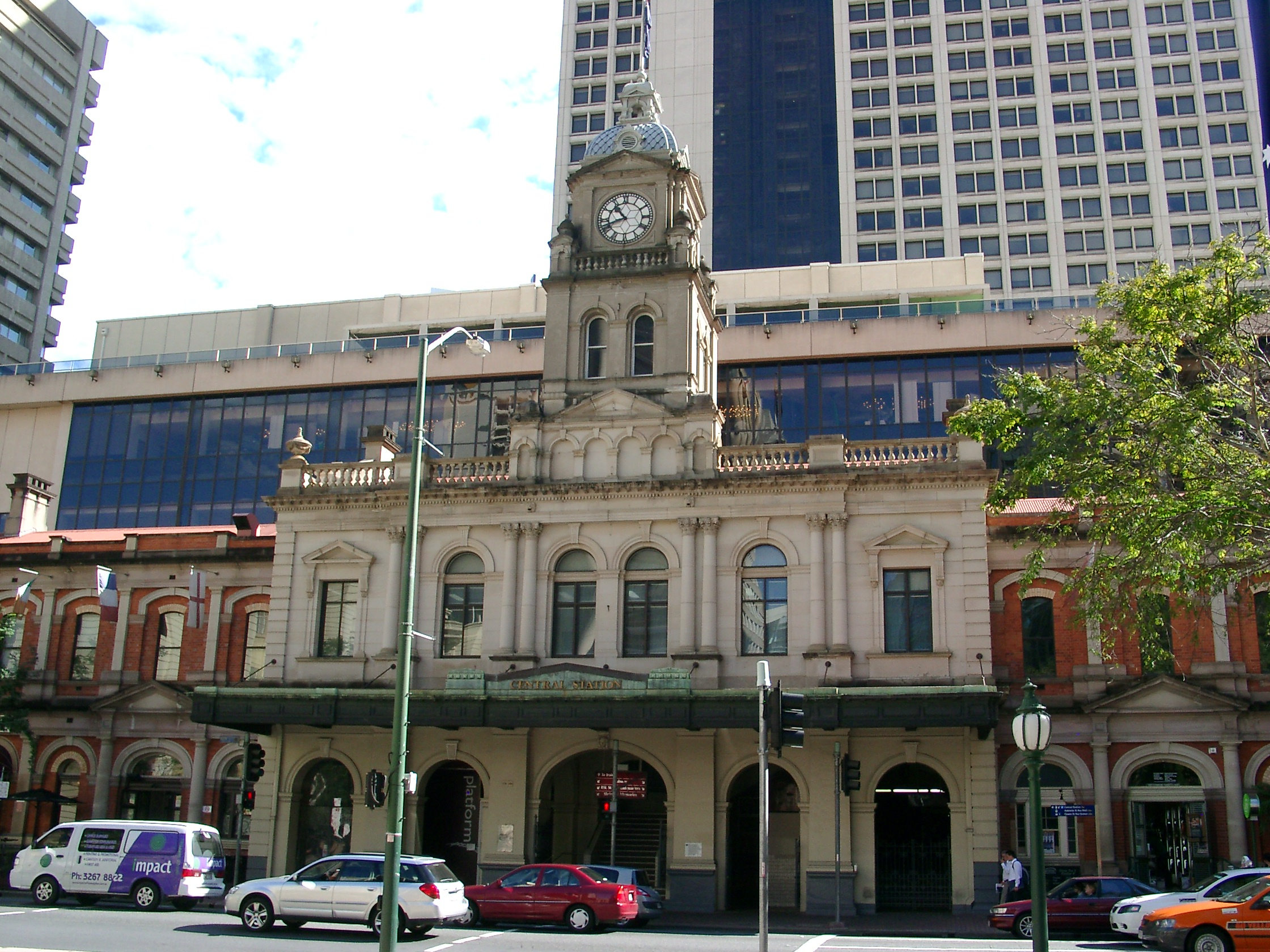 Brisbane Central